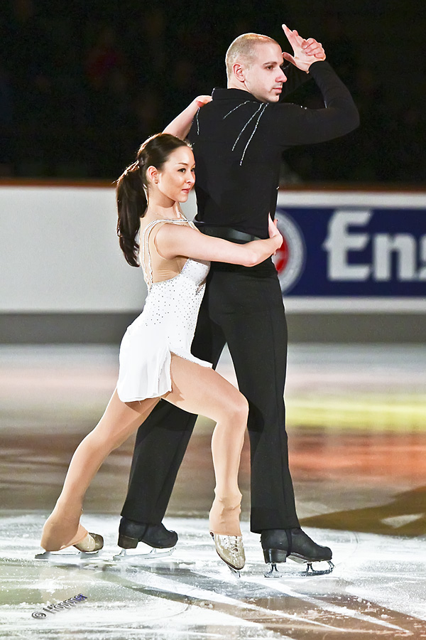 Mari-Doris Vartmann and Aaron Van Cleave at the show of the German Championships 2011 in figure skating. Photo was made by Hella Höppner. Permission was granted to publish this here under the selected licence.